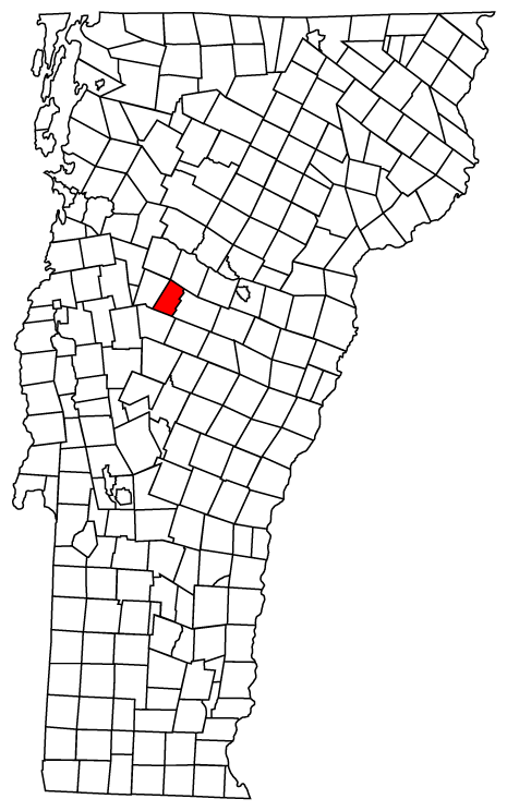 Map of Vermont towns with Waitsfield highlighted